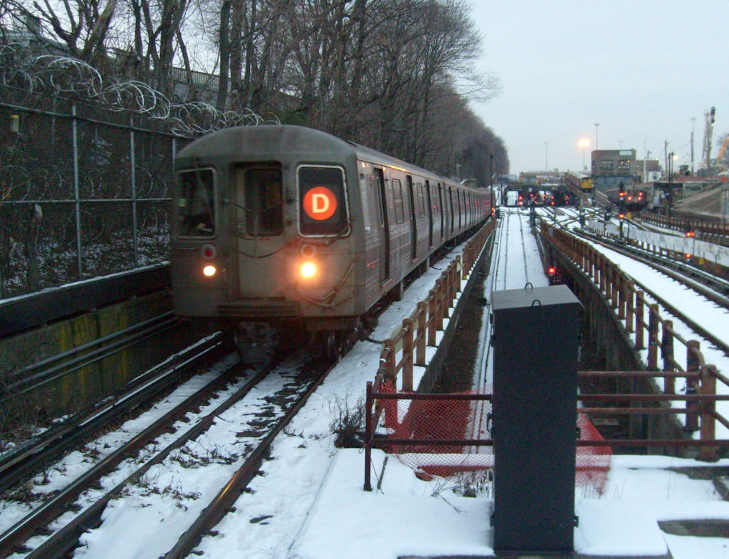 IND R68 D train to Coney Island enters the 9th Avenue Station